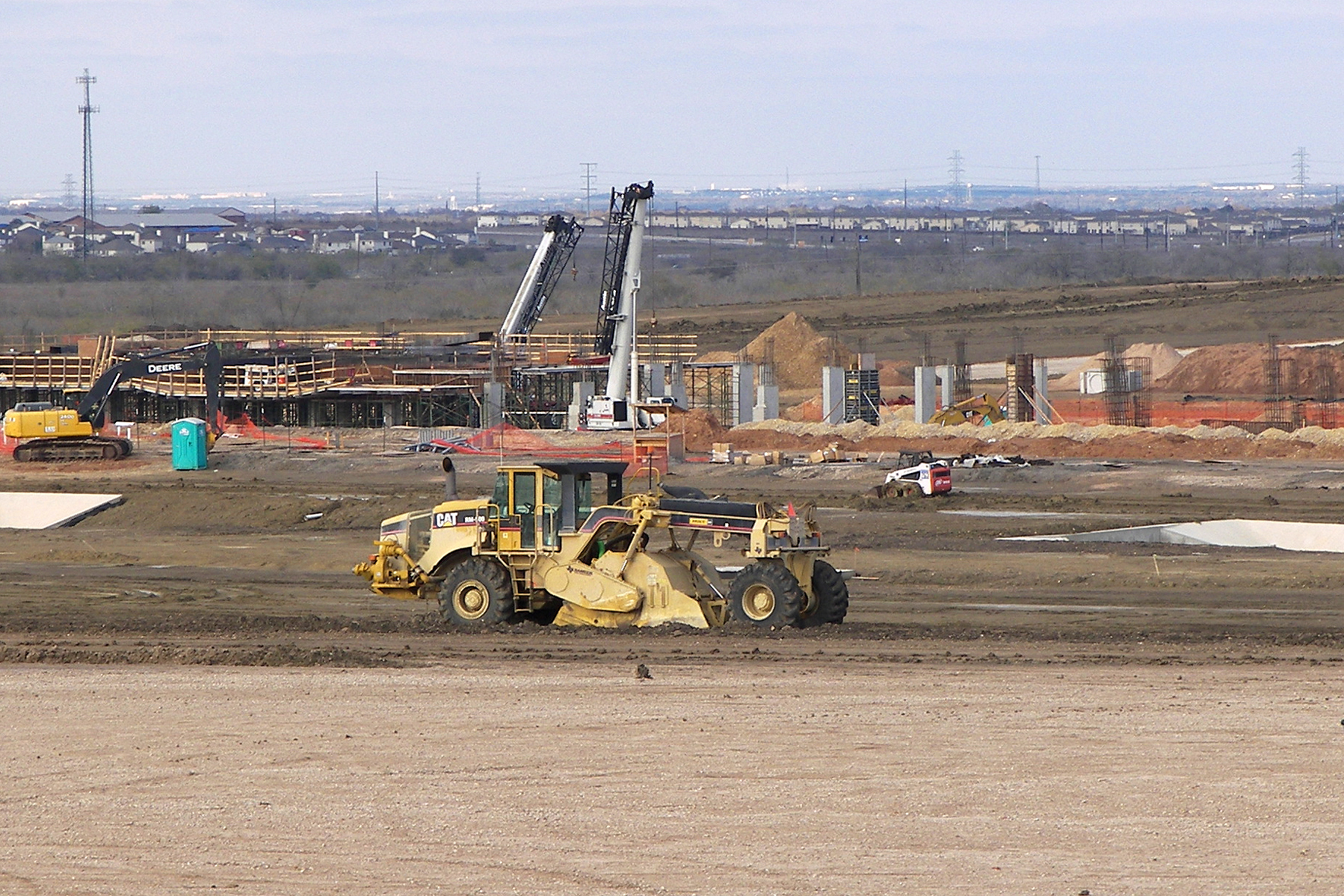 The start of building construction at Circuit of the Americas.